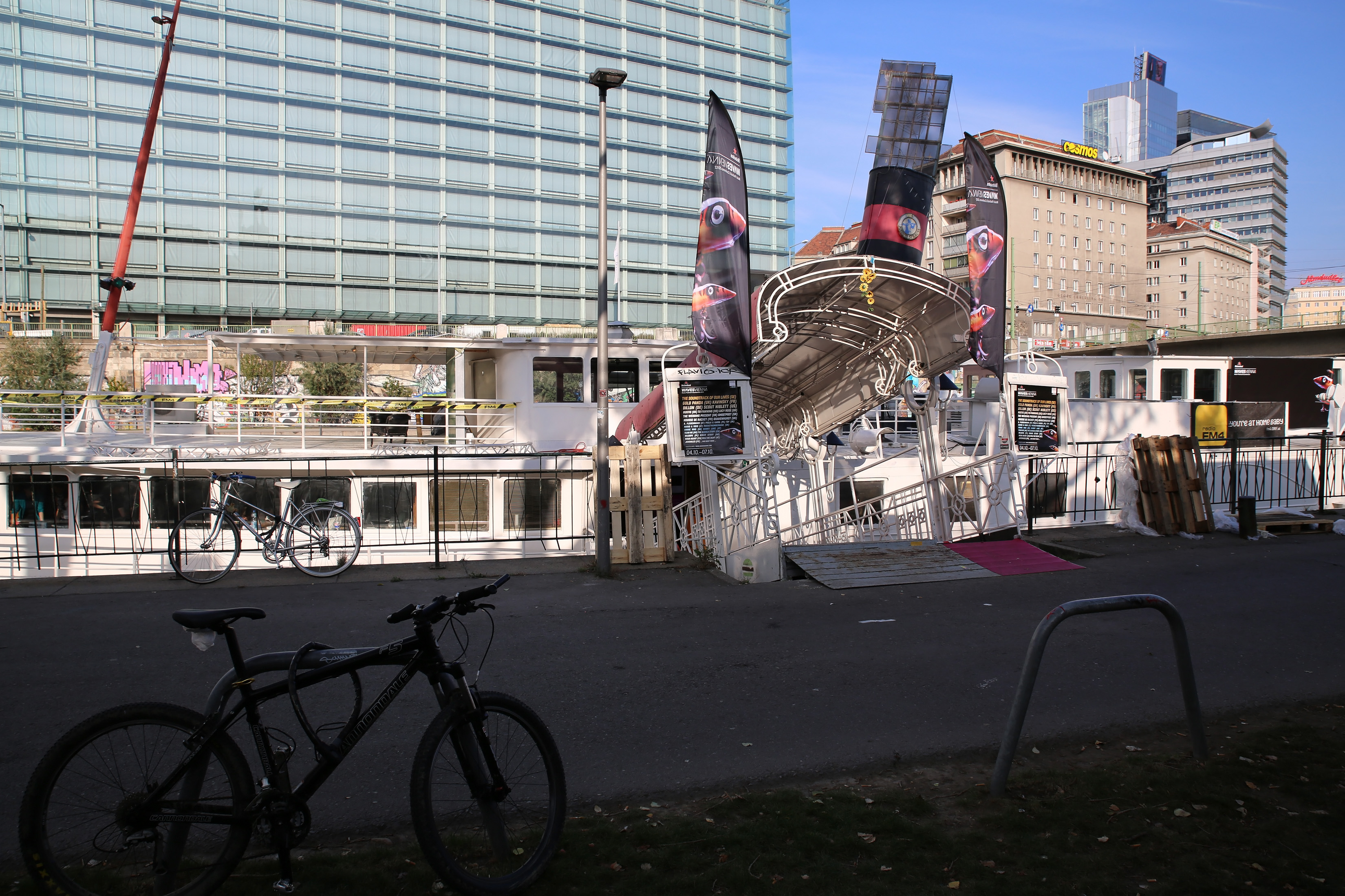 Waves Vienna Music Festival & Conference 2012 in Vienna, Austria, 'Clubschiff' on Donaukanal in Vienna, Austria.